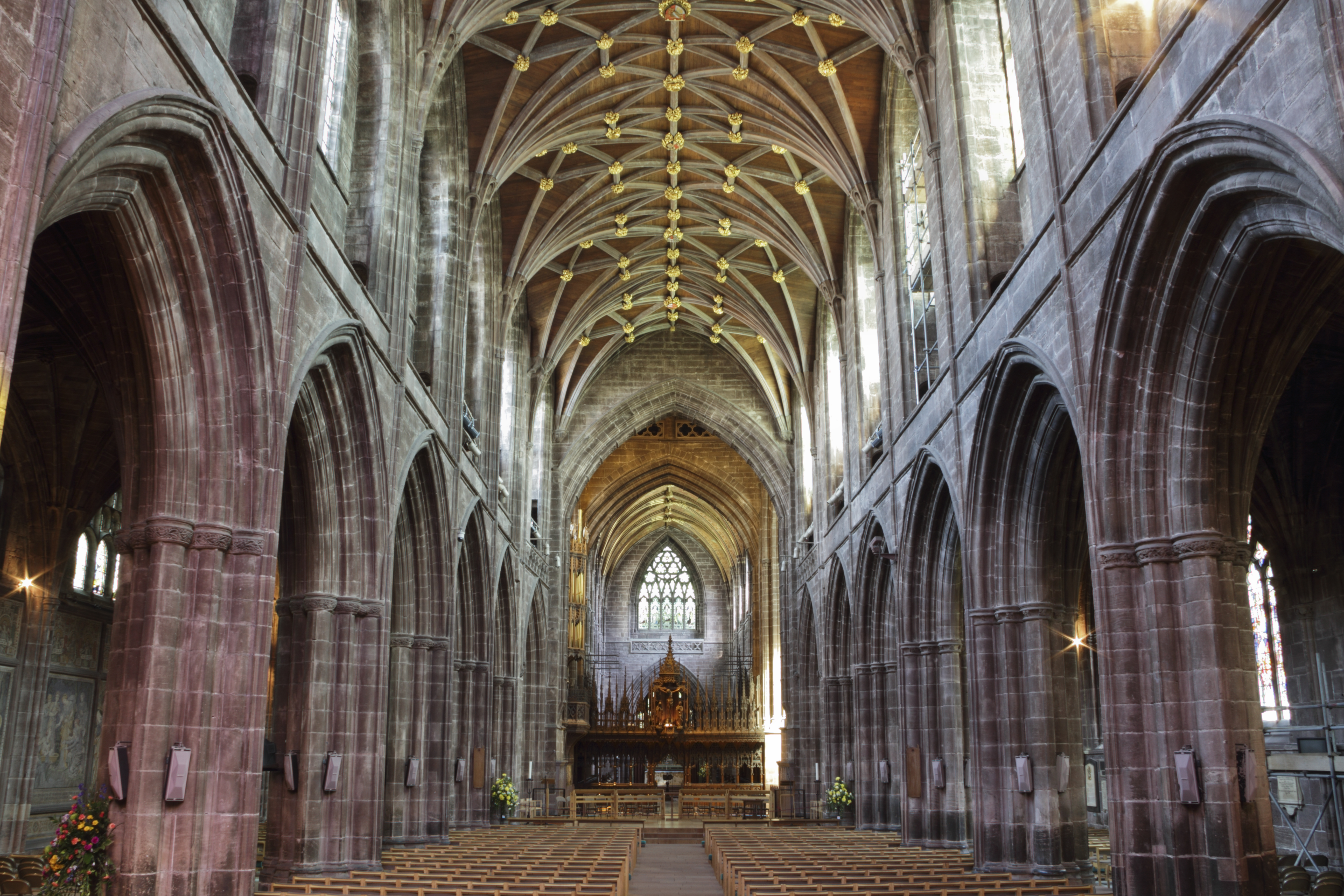 Here is a photograph taken from inside Chester Cathedral. Located in Chester, Cheshire, England, UK. You CAN view and download the full 18megapixel image in Flickr, check out the other sizes when viewing ***